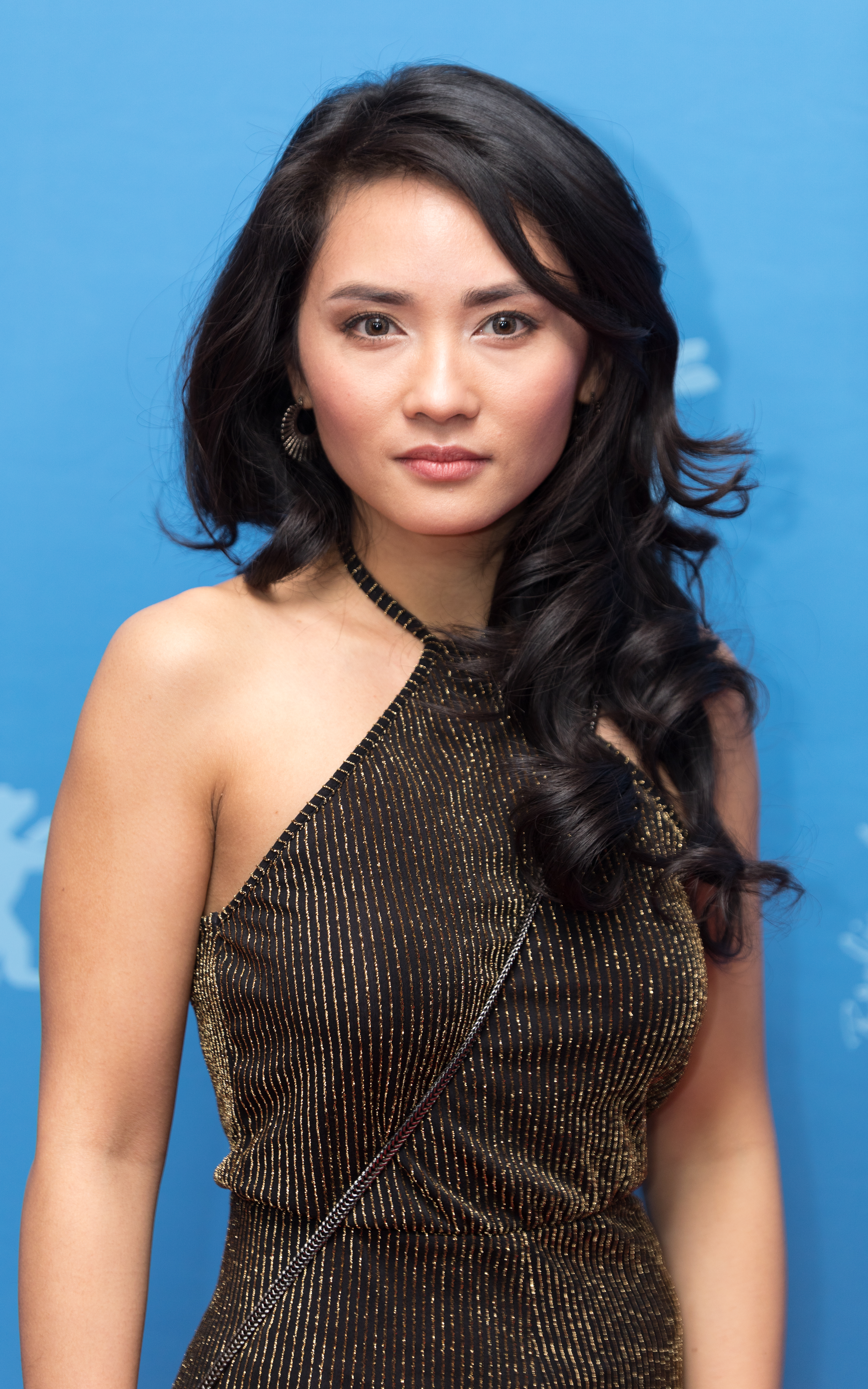 Mai Duong Kieu presenting the german mini-series Bad Banks at the Berlinale 2018